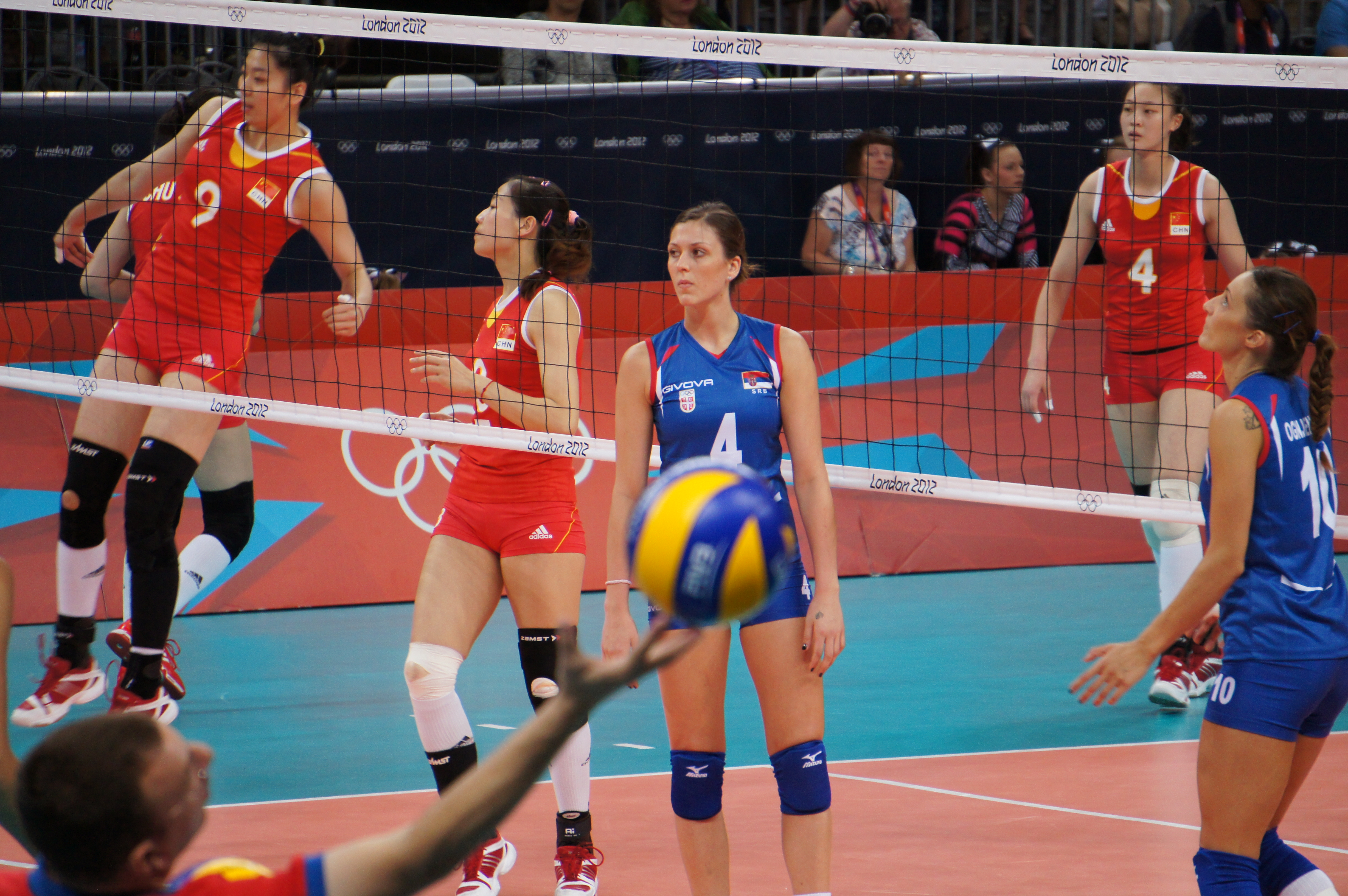 Volleyball at the 2012 Summer Olympics